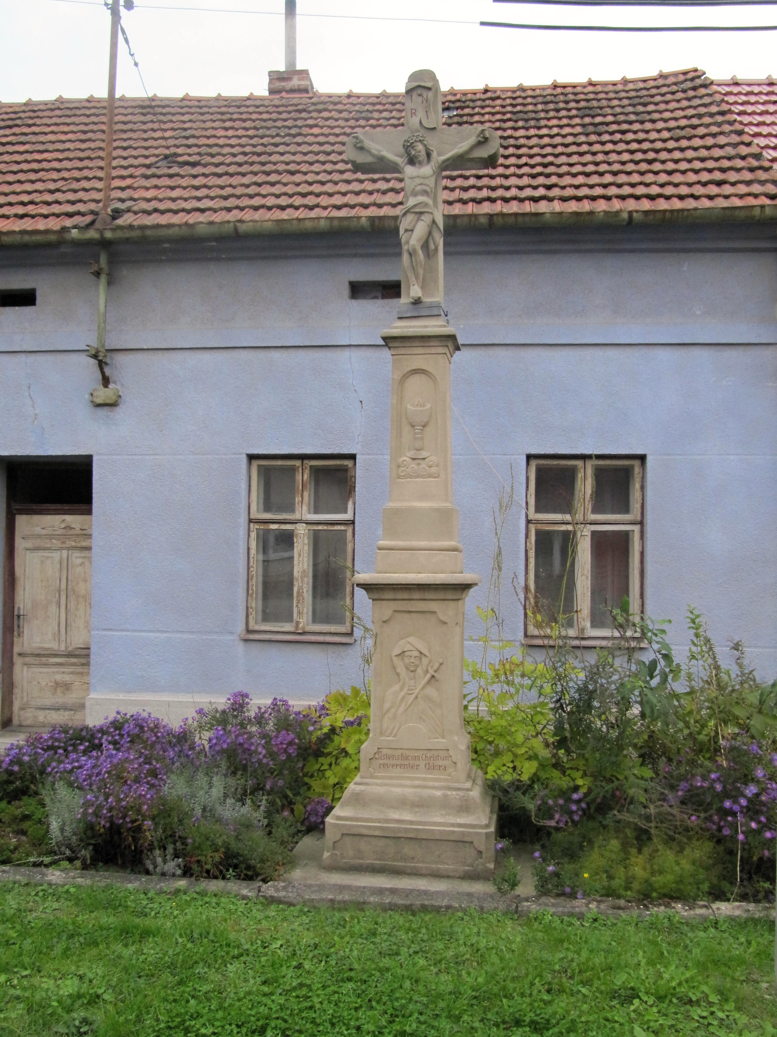 Nivnice in Uherské Hradiště District, Czech Republic.Cross from 18-th century. This photograph was taken within the scope of the third year of the 'Czech Municipalities Photographs' grant.